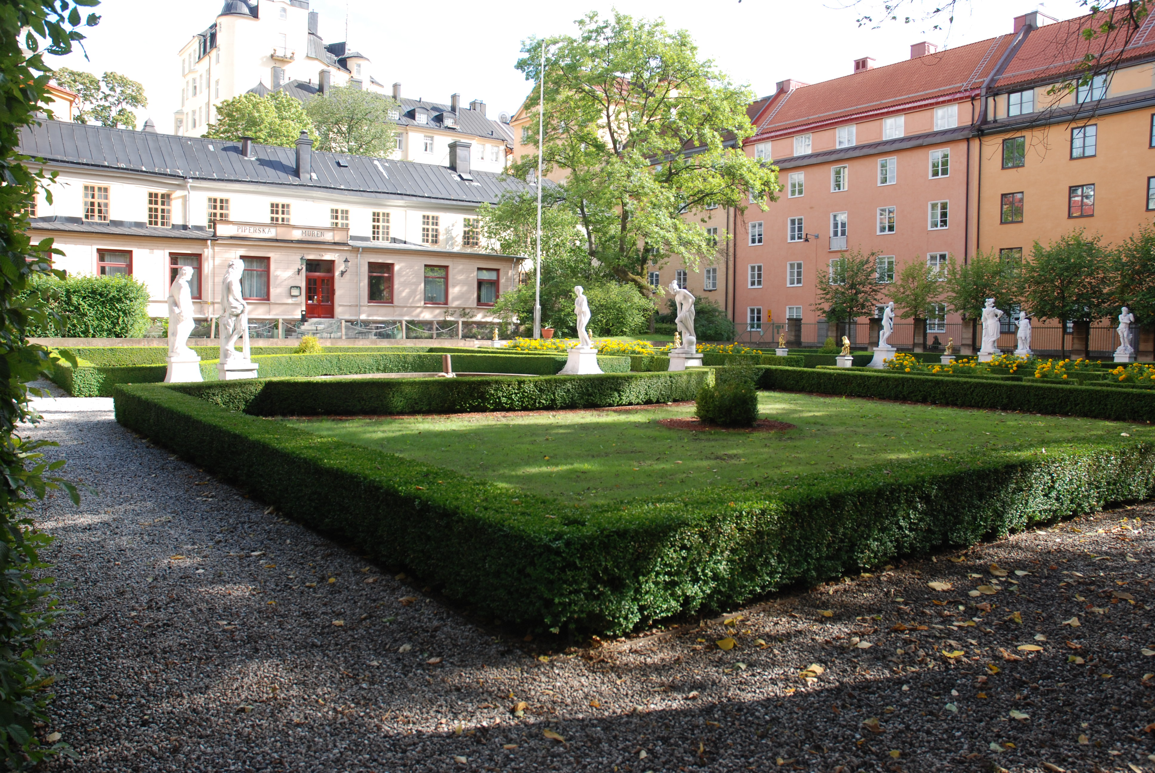 Piperska muren, Stockholm, view from northwest